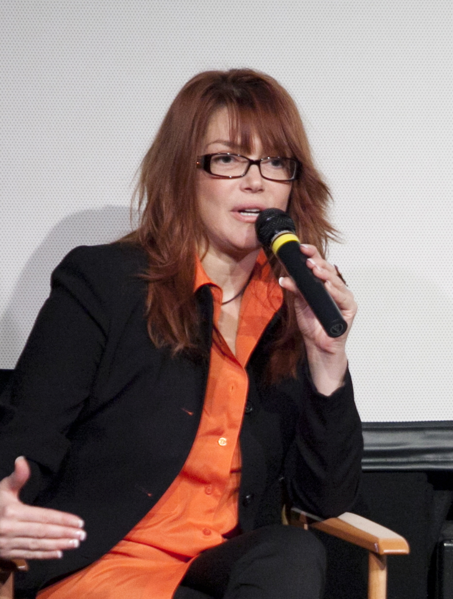 Lynda Boyd visited with VFS Acting students in a discussion moderated by Head of Department Bill Marchant. The stars of the popular CBC drama talked about getting started as actors, challenges and strategies for succeeding in today’s industry, and the recent launch of season three of The Republic of Doyle. Read about their visit on the [#//blog.vfs.com/2012/01/17/republic-of-doyle-stars-visit-vfs-acting-grads VFS Blog]. Find out more about VFS's one-year Acting for Film & Television program at